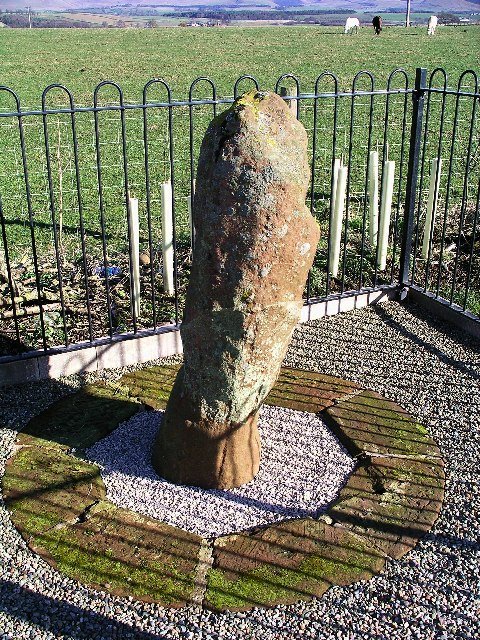 Roman Milestone on A66. This Roman Milestone is approximately one mile west of Kirkby Thore, where there was an important Roman Fort known as Bravoniacum, dating from about AD80 to the late 4th century.